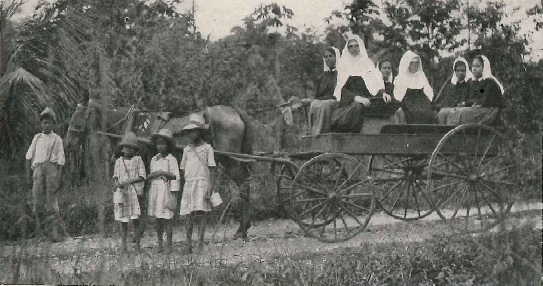 Pallottine Sisters arriving at Nazareth novitiate outside Punta Gorda, Belize